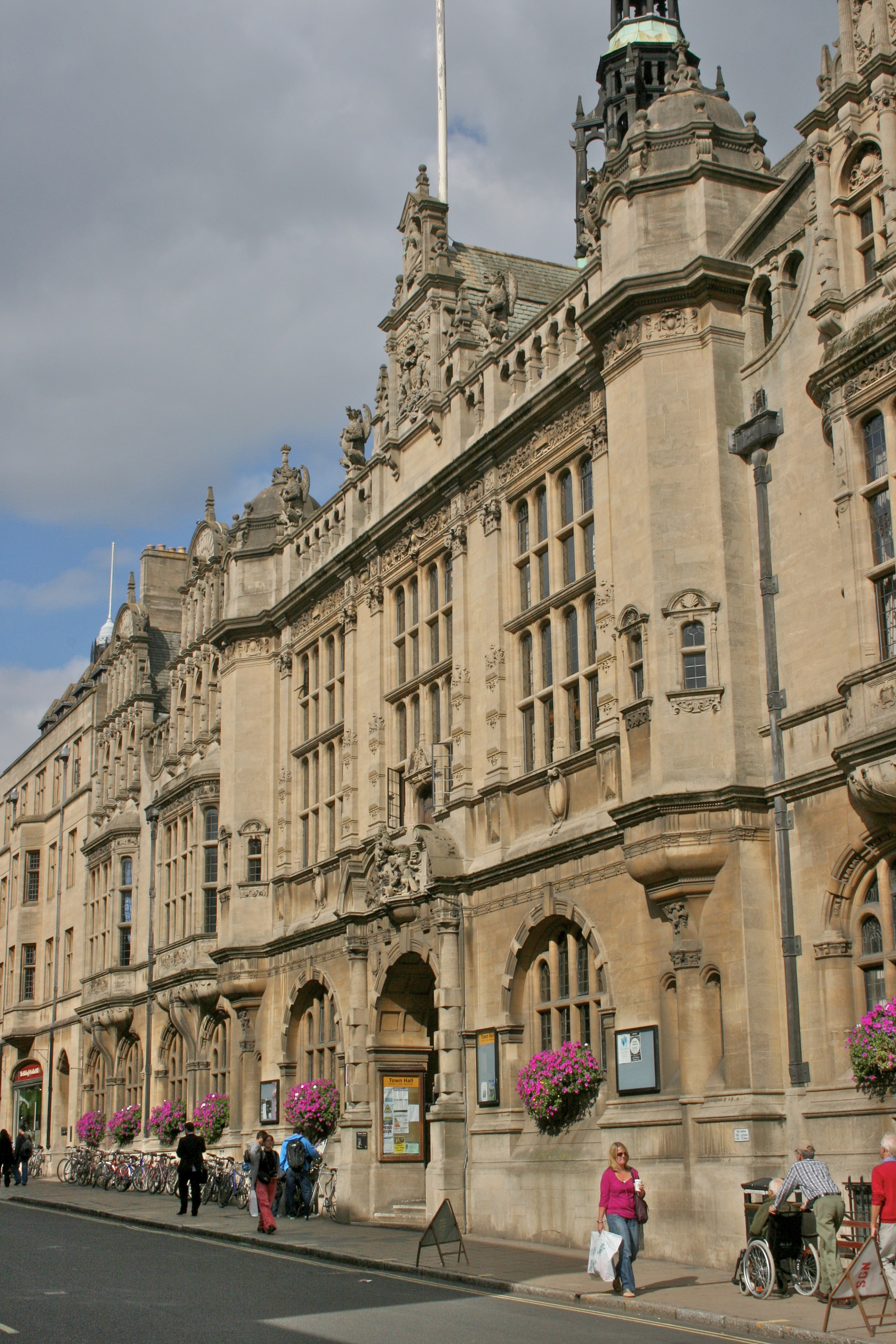 Oxford Town Hall. Oxford, United Kingdom.